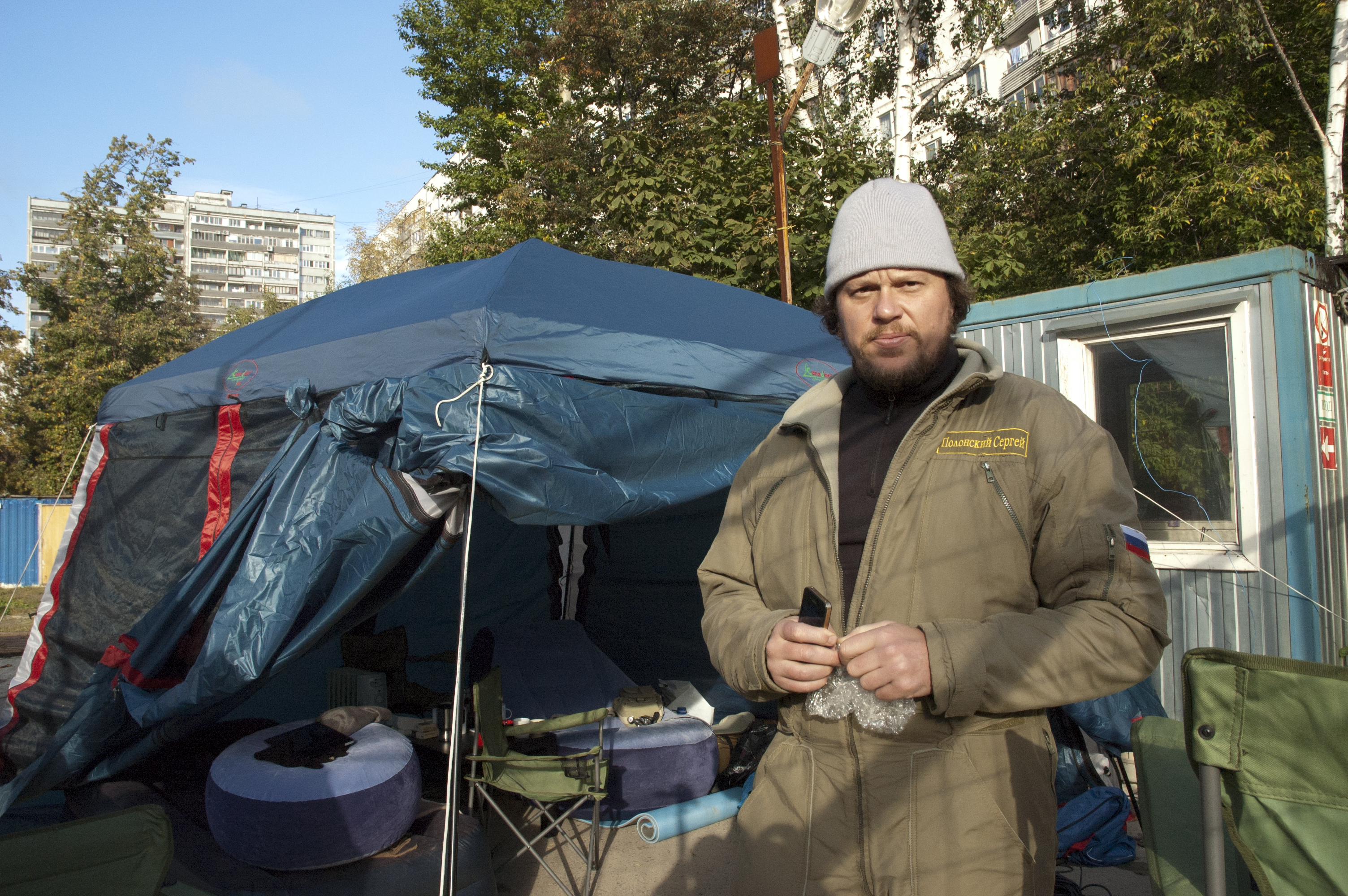 Kutuzovskaya Milya